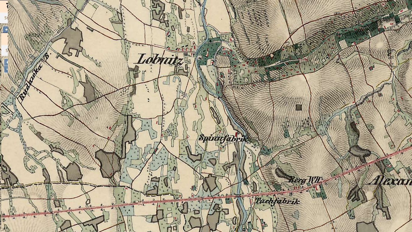 Austrian topographic map of Wapienica (Lobnitz), a district of Bielsko-Biała.